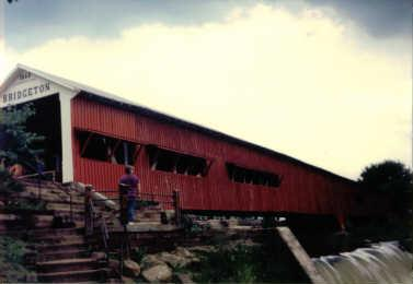 Bridgeton Covered Bridge